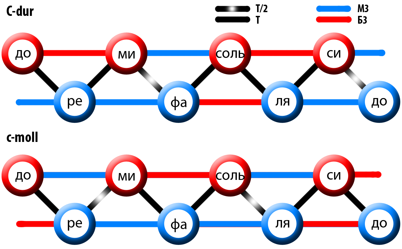 C-dur c-moll Gamma